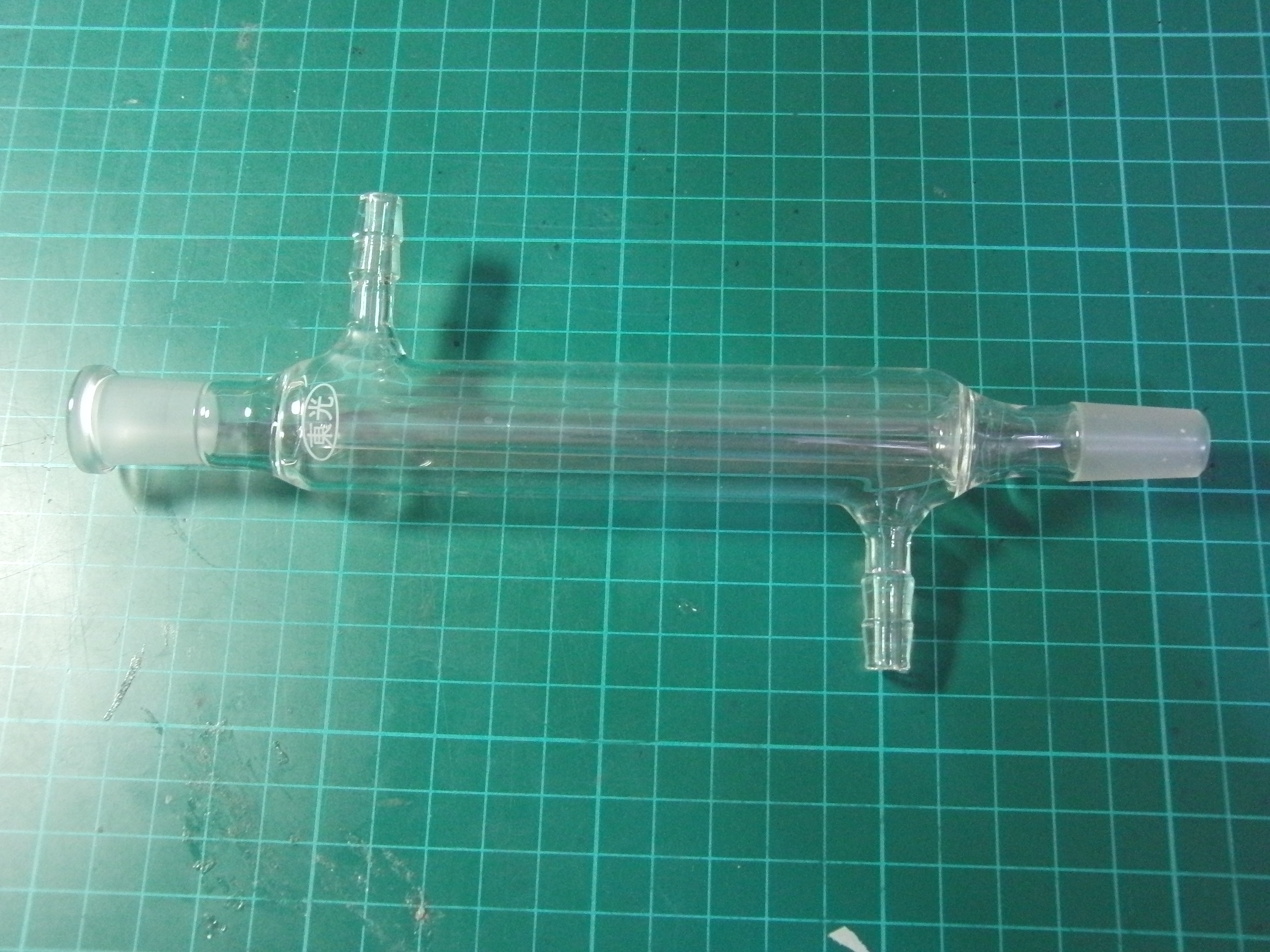 Condenser